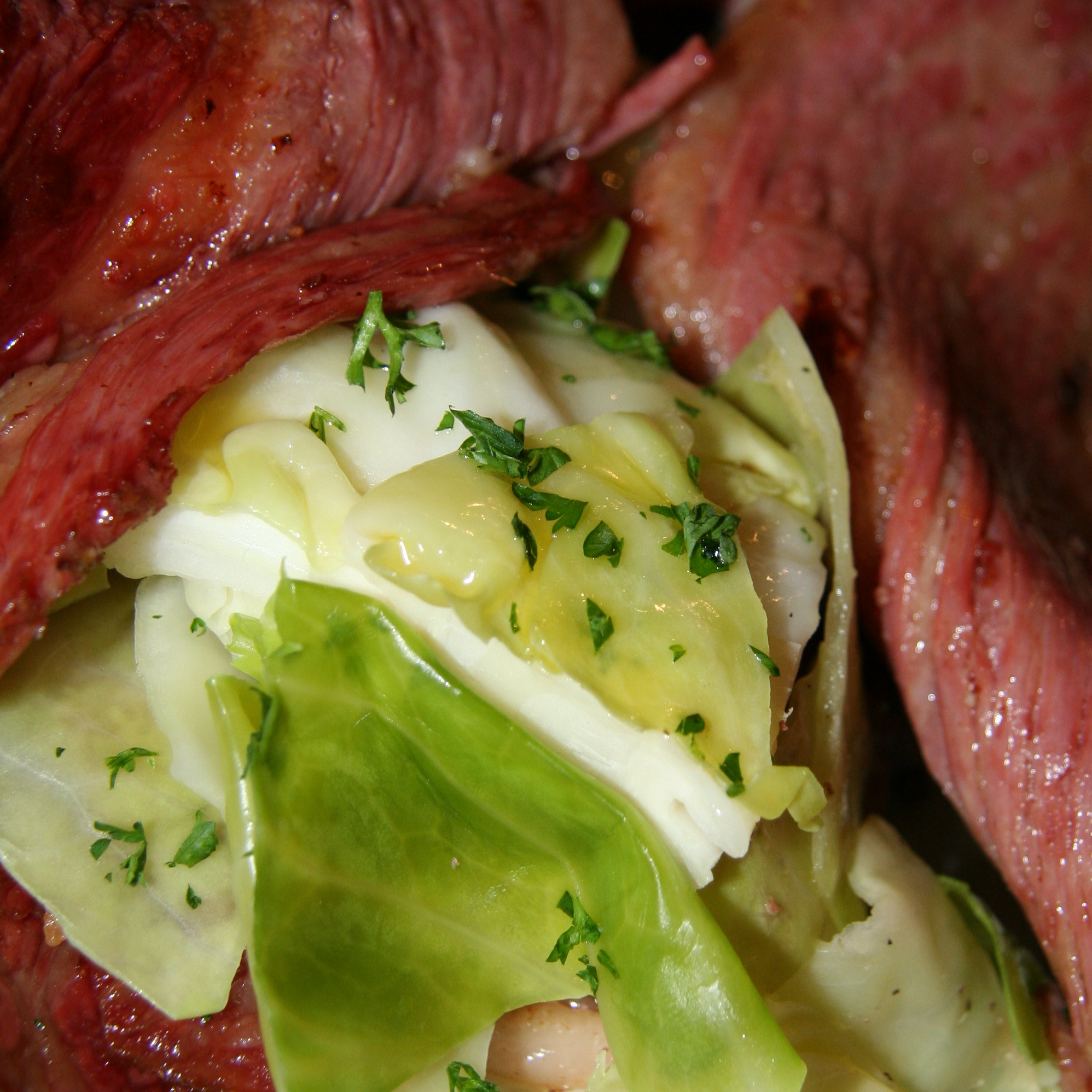 Closeup view of corned beef and cabbage, served on Saint Patrick's Day at the Canadian Honker Restaurant in Rochester, Minnesota, United States